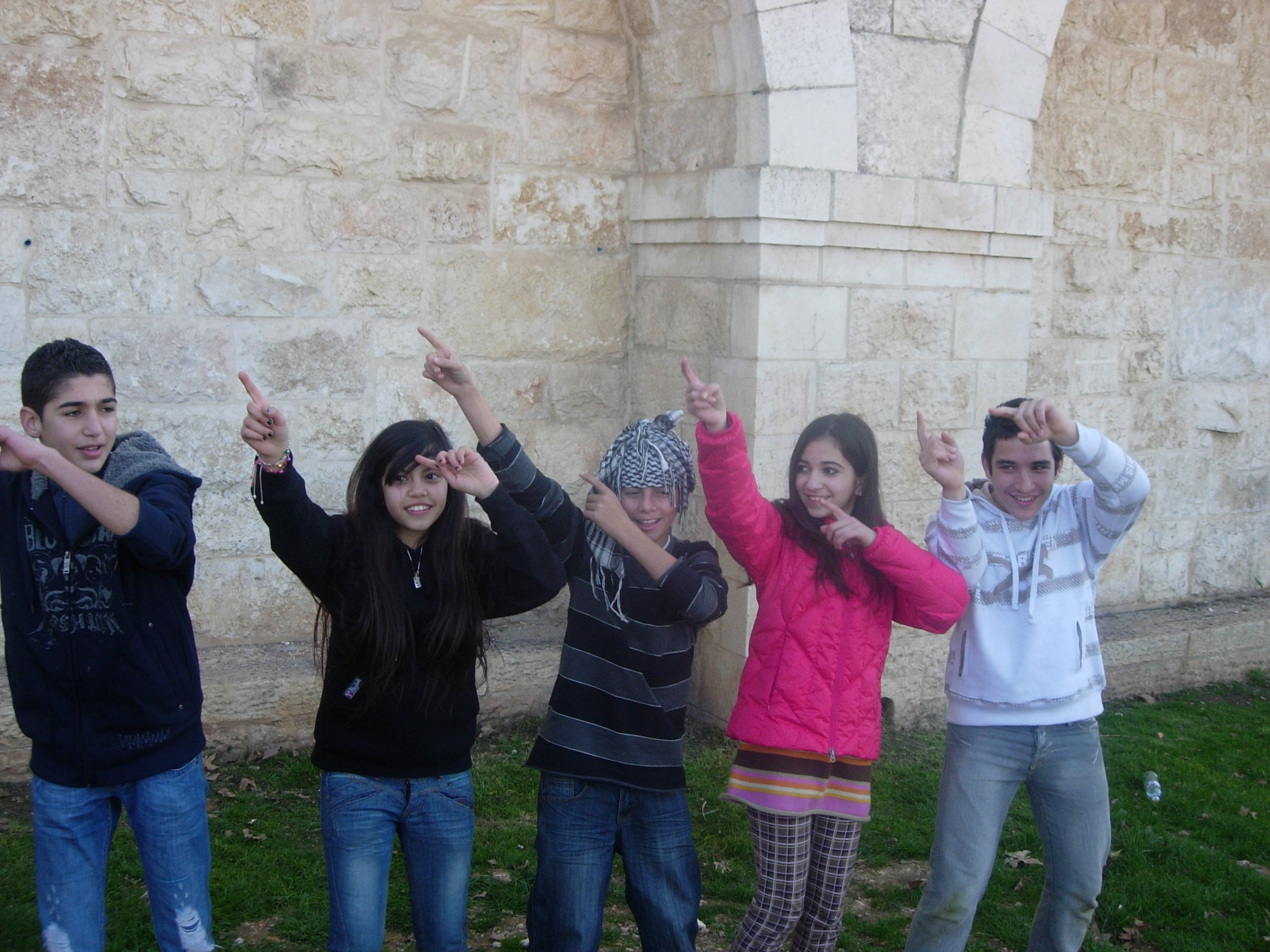 Students from the school the Hand in Hand Center for Arab and Israeli Education